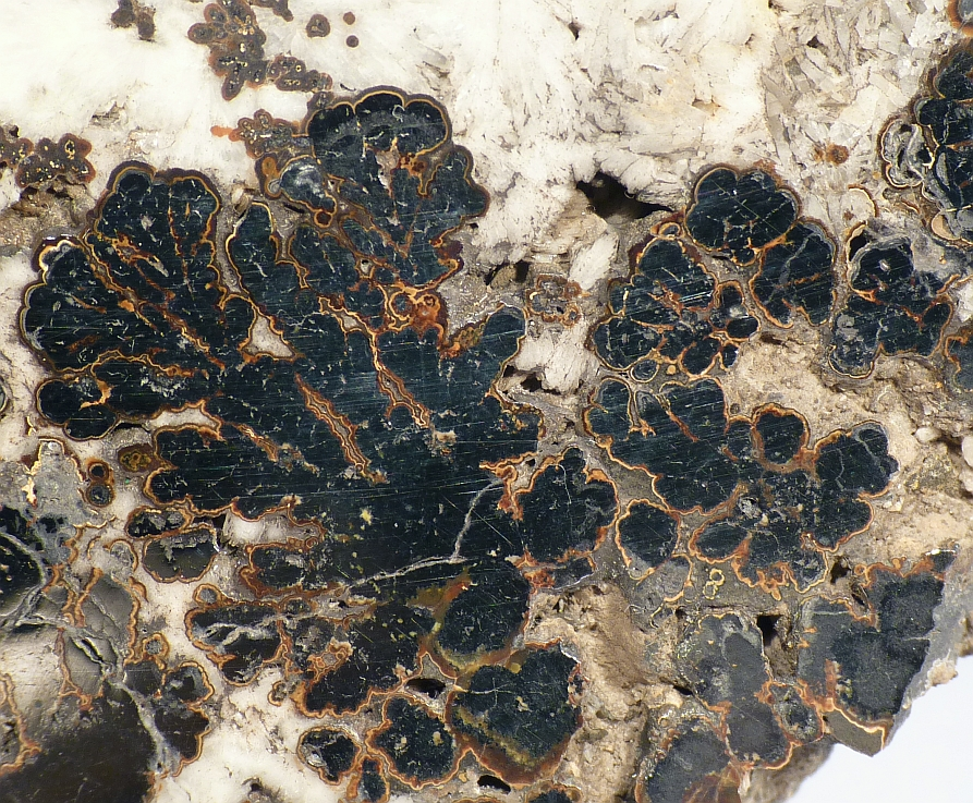 Jordanite Locality: Segen Gottes Mine, Wiesloch, Baden-Württemberg, Germany Gray metallic jordanite in schalenblende. Field of view 2.5 cm. Specimen and photo Leon Hupperichs.